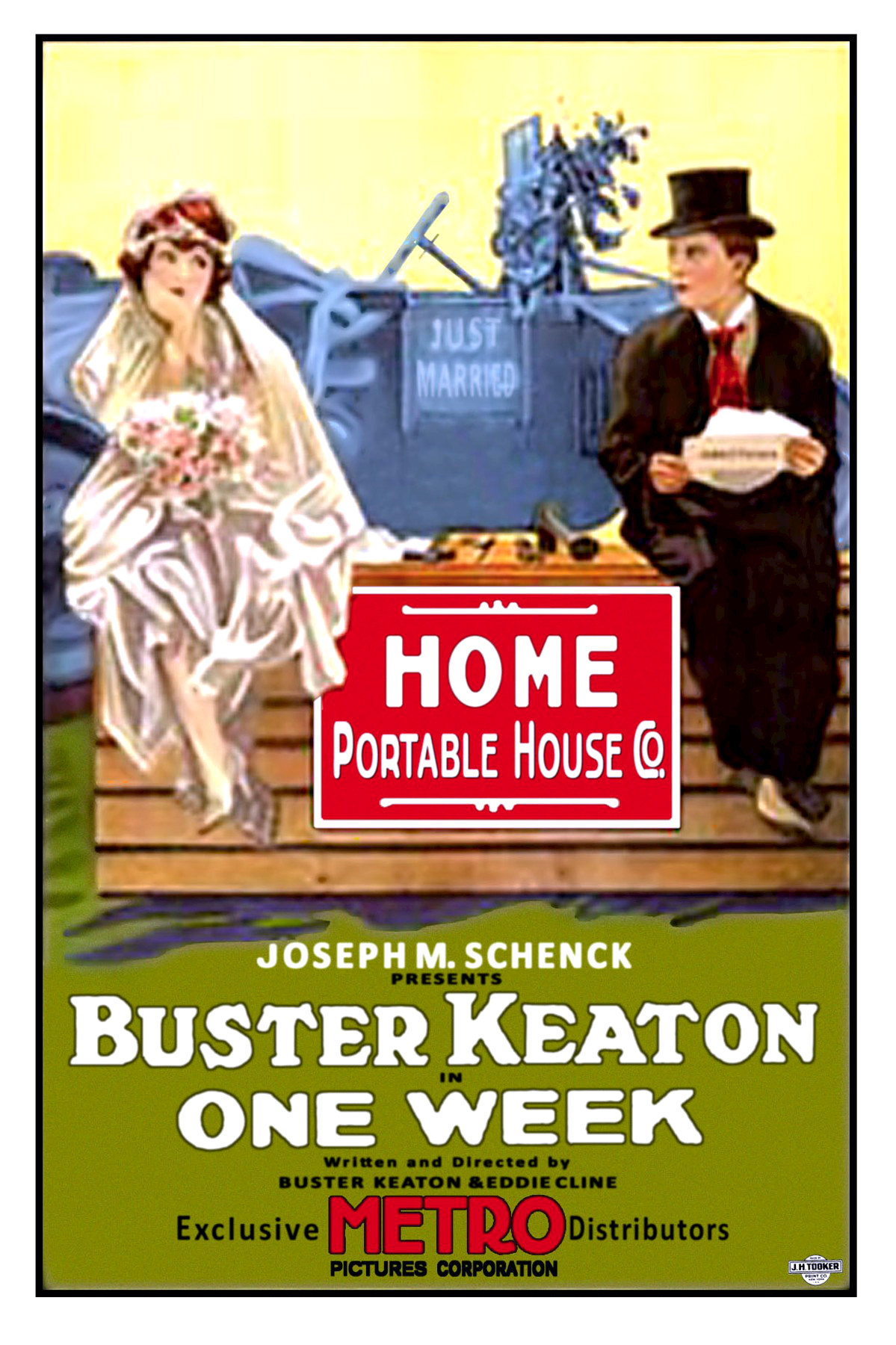 Buster Keaton and Sybil Seely in One Week (1920) poster.